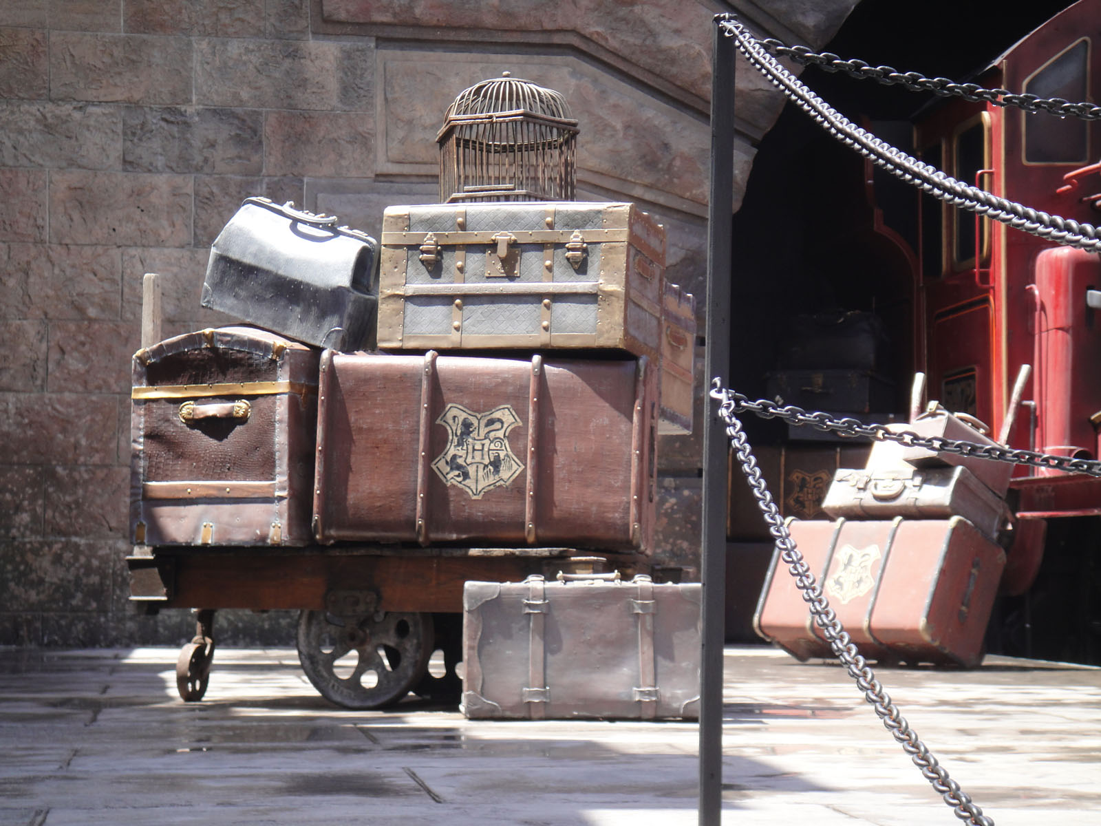 Wizarding World of Harry Potter - luggage unloaded from the Hogwarts Express